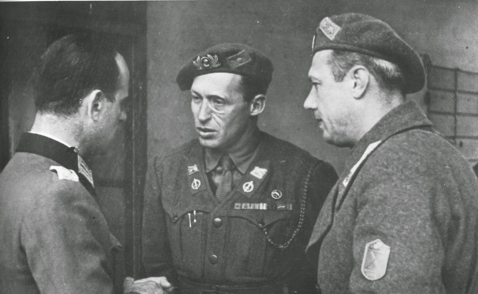 Junio Valerio Borghese and Umberto Bardelli. April 1944, Nettuno